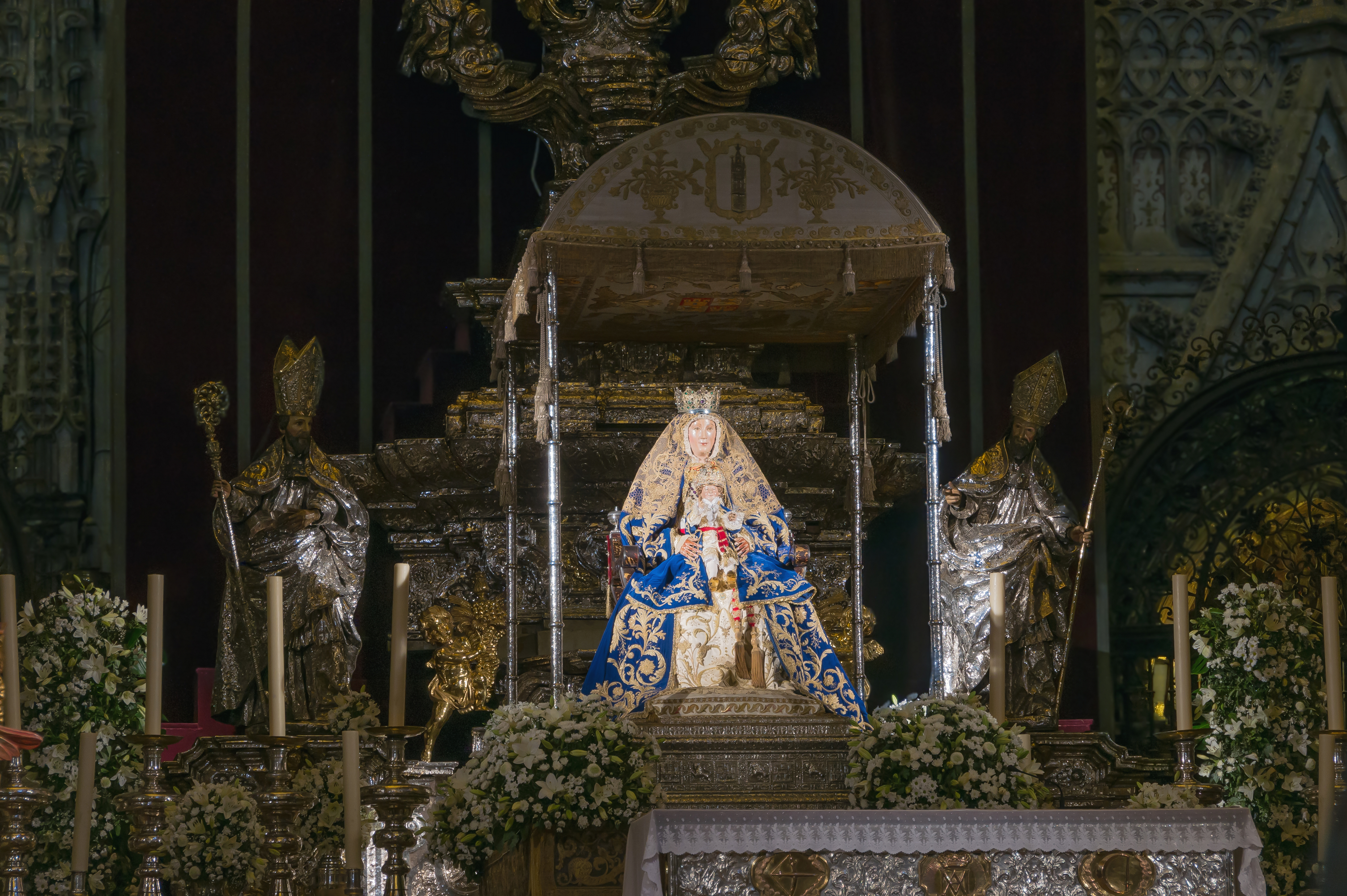 "Virgen de los Reyes on her palanquin, cathedral of Seville, Spain.